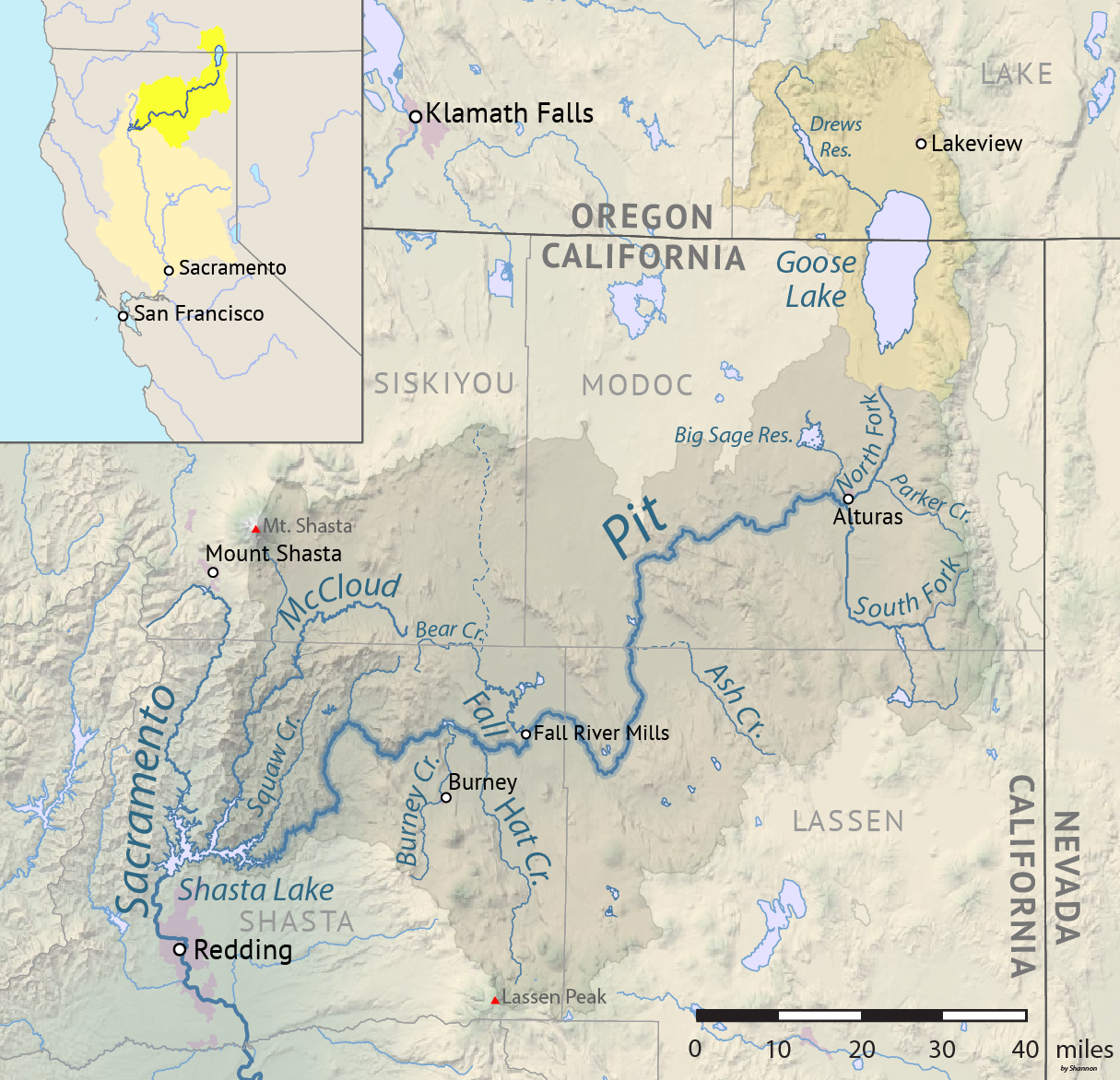 Map of the Pit River drainage basin in California and Oregon. The intermittently connected Goose Lake sub-basin is indicated in orange. Made using USGS National Map and NASA SRTM data.